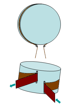 Helical scan omega threading